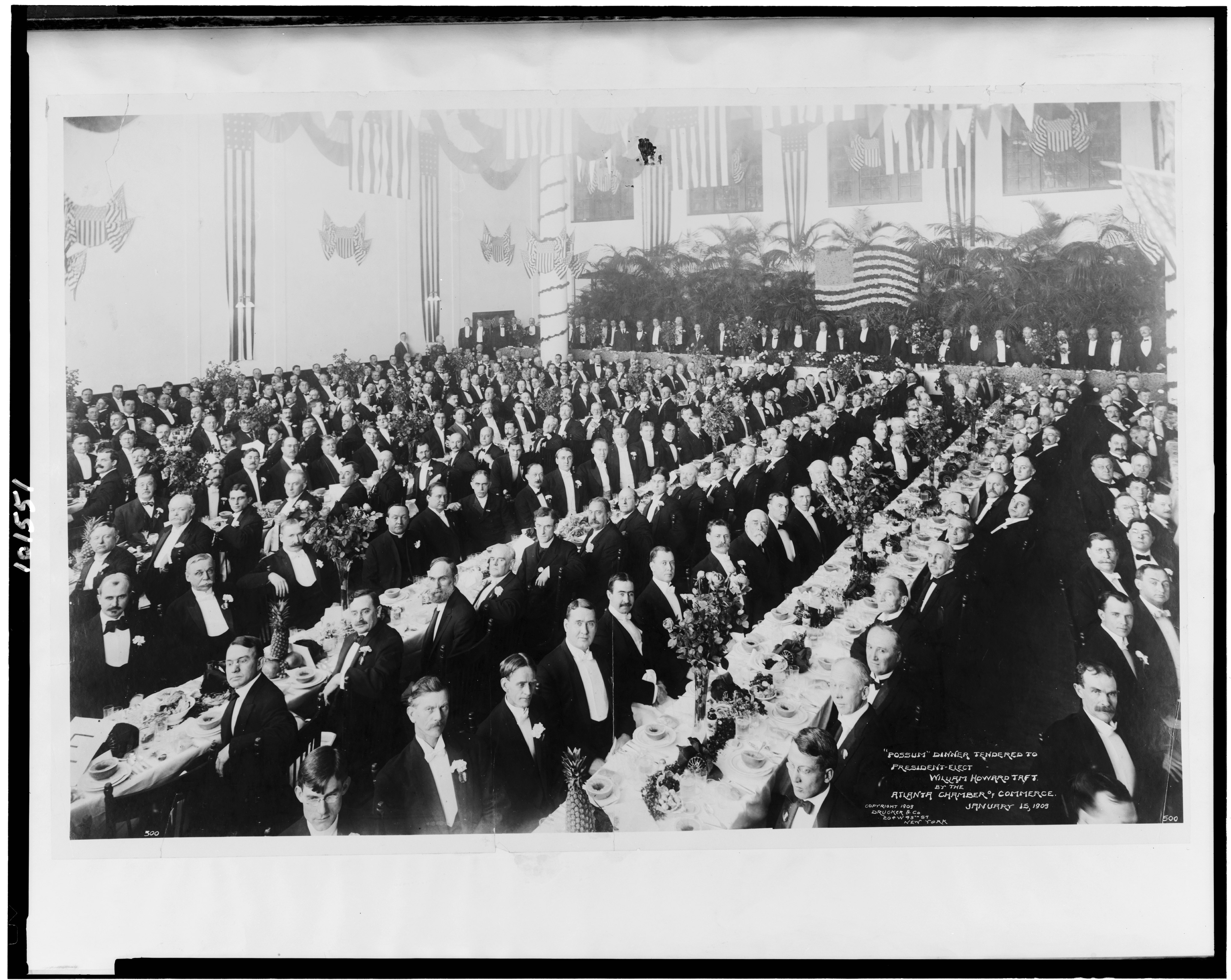 Title: "Possum" dinner tendered to President-elect William Howard Taft by the Atlanta Chamber of Commerce, January 15, 1909 Abstract/medium: 1 photographic print.